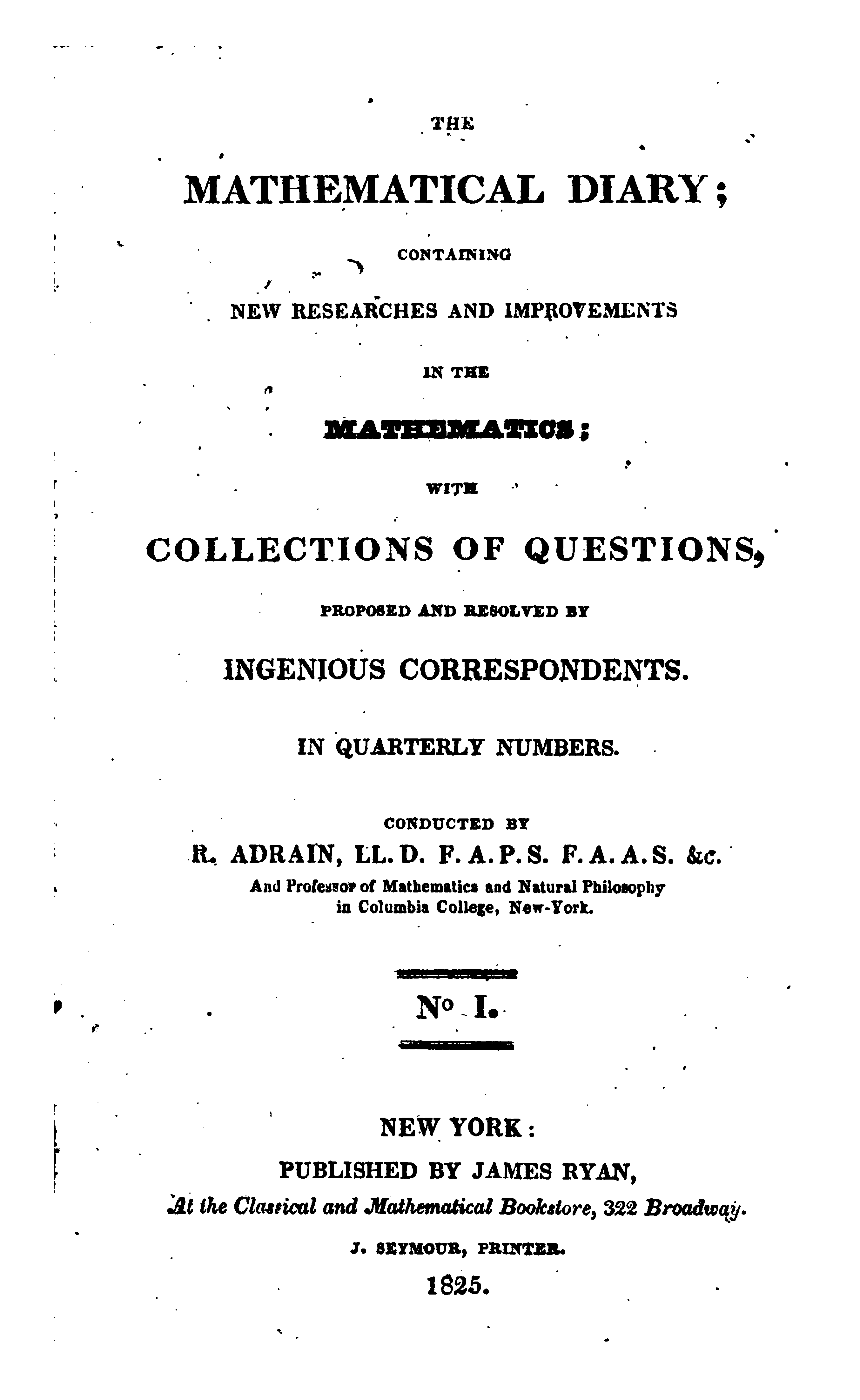 Title page of the first issue of The Mathematical Diary, a mathematics journal and magazine